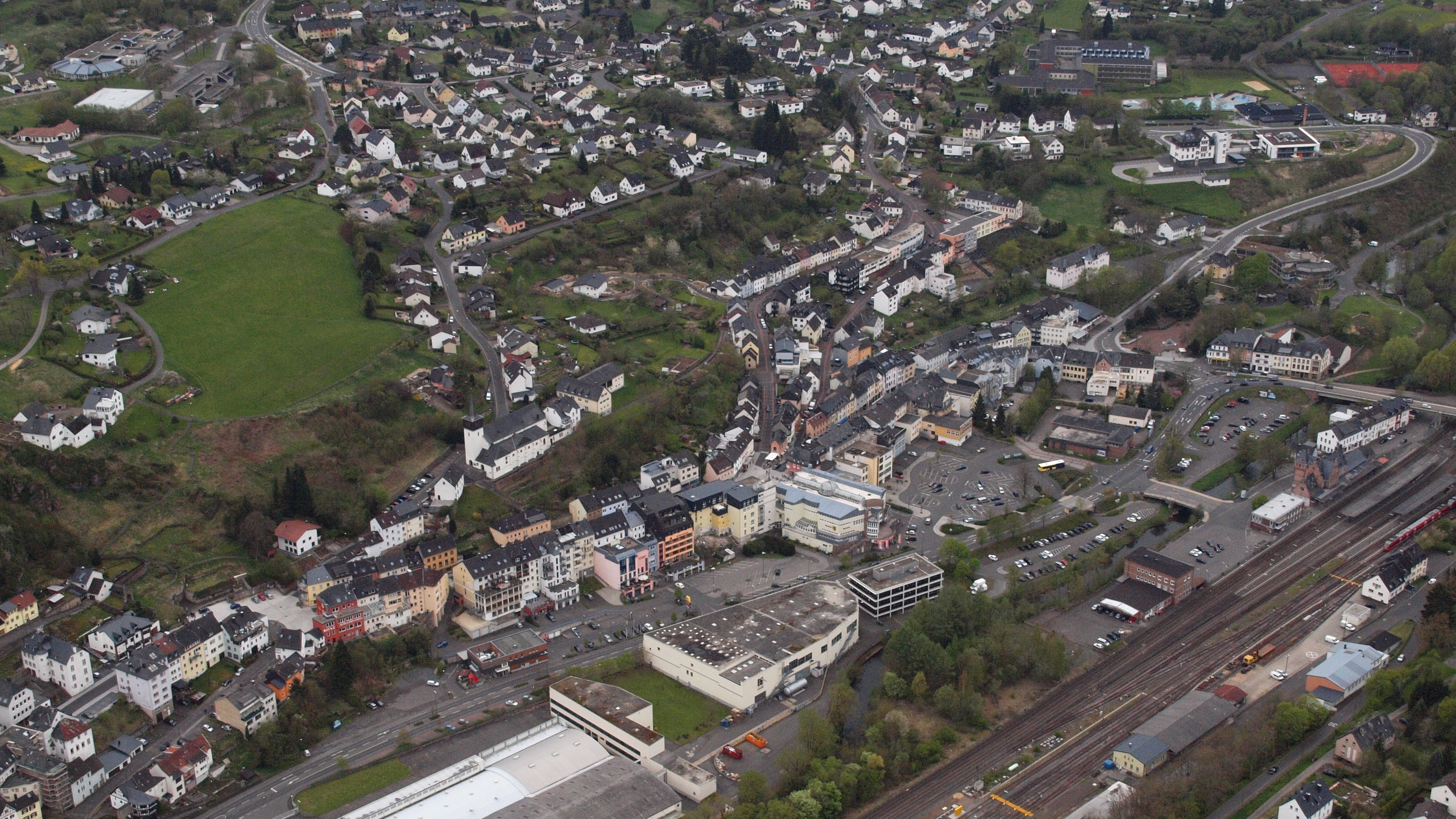 Gerolstein, Germany; aerial photography, 2015